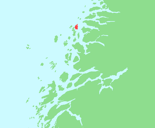 Locator map of Rødøya, Nordland, Norway